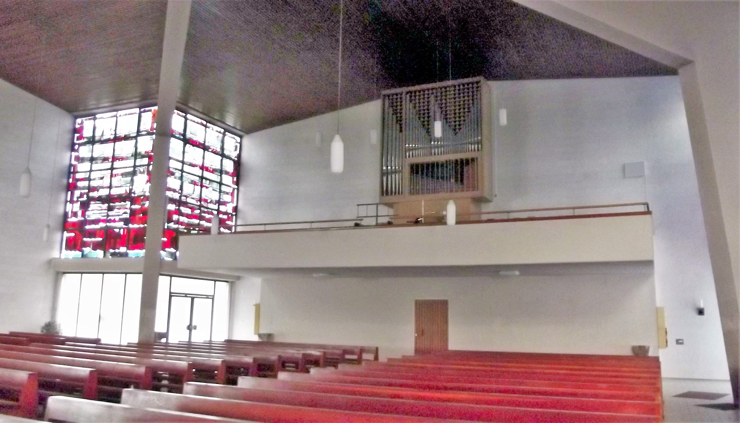 Interior of the roman catholic church in Dörsdorf, Saarland